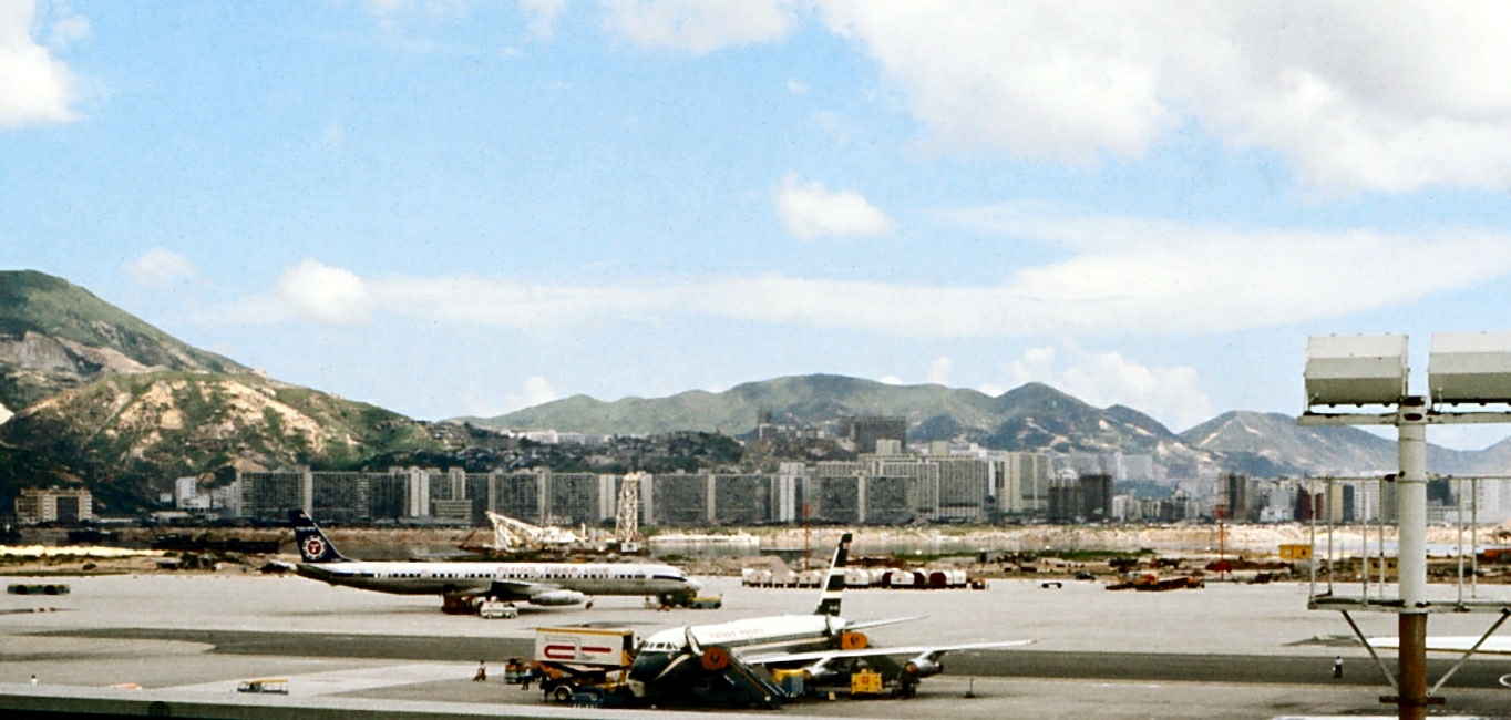 Kowloon Bay Skyline view from Kai Tak Airport in 1971